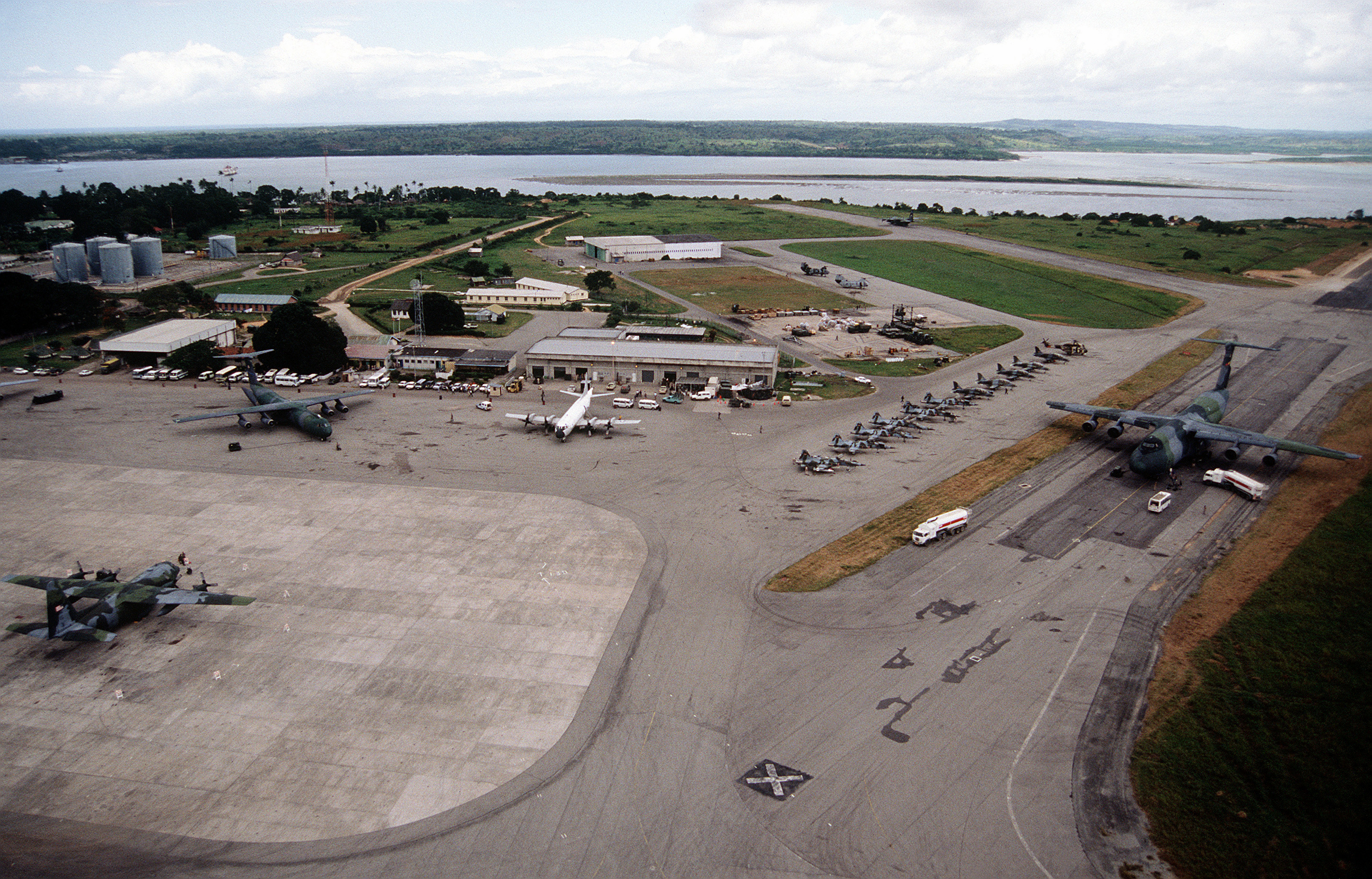 Aerial view of Moi International Airport, one of the main staging areas for the humanitarian airlift flying into Goma, Zaire supporting the Rwandan refugees.